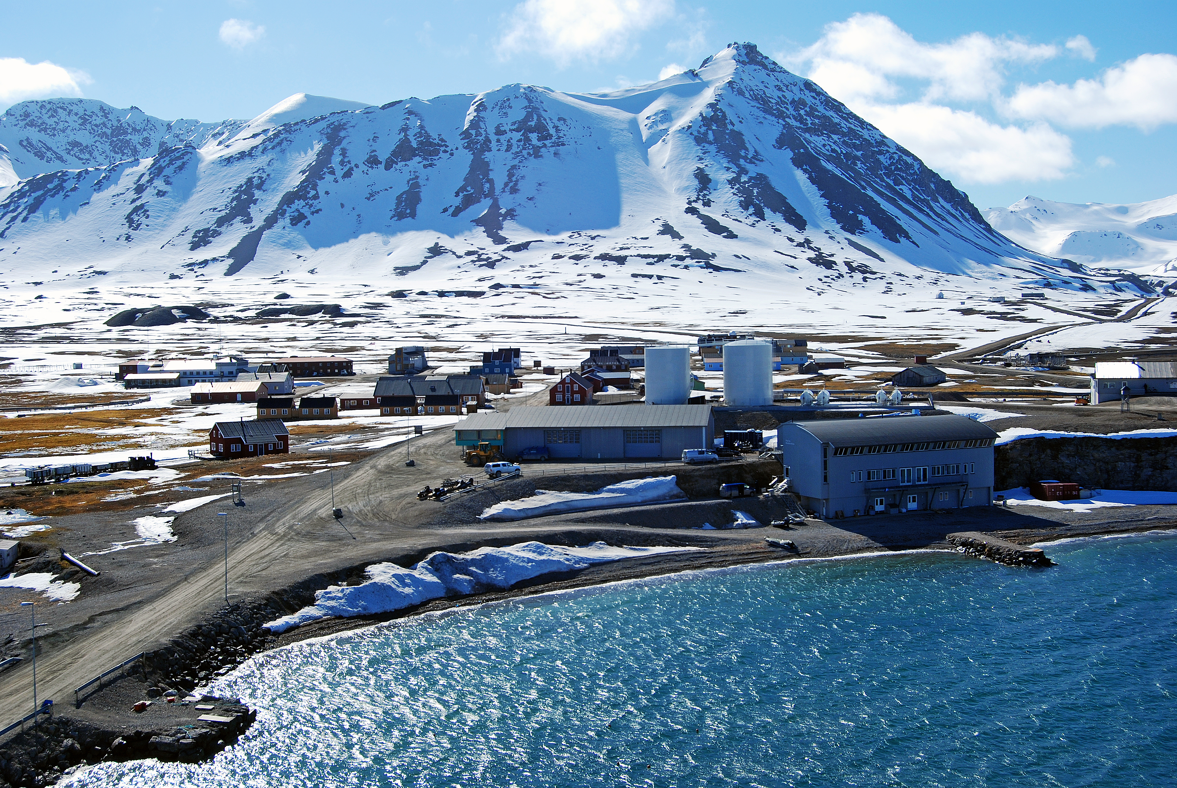 Ny-Ålesund is one of the four permanent settlements on the island of Spitsbergen in the Svalbard archipelago. It is one of the world's northernmost functional public settlement at 78°55′N 11°56′E inhabited by a permanent population of approximately 30–35 scientists and support staff